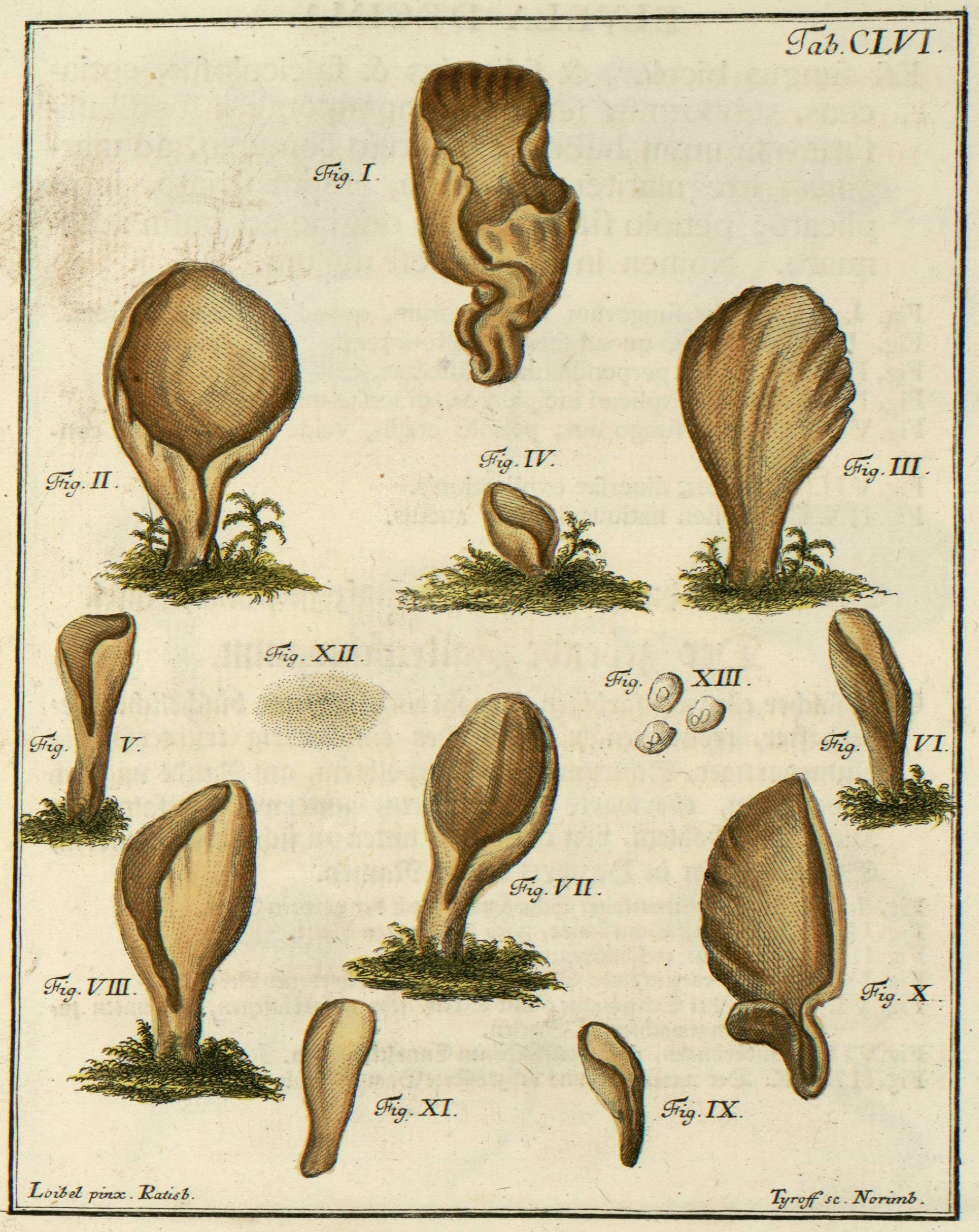 Rubric of plate one hundred and fifty. The ninth Helvella. It is a single-coloured, solitary, leathery fungus of little variability ; in place of a cap is a membrane like a spoon or (better) a hare's ear; with a short cylindrical stipe. It does not have a Bavarian common name. Fig. I. A deformed shell-shaped mushroom. Fig. II. A developed spoon-like mushroom with a short round stipe. Fig. III. The same from behind. Fig. IV. A small undeveloped individual. Fig. V. VI. VII. IIX. IX. Variations with different development and form. Fig. X. In vertical section. Fig. XI. A club-shaped mushroom from behind. Fig. XII. XIII. Life-sized and magnified spores.